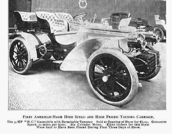 1901 Gasmobile 35 HP Detachable Tonneau. This is the only example built. If produced, it would have been the first six cylinder car in the U.S. Picture is from the 1902 New York Automobile Show, where it was sold for $8000. Rear passenger compartment is removable.